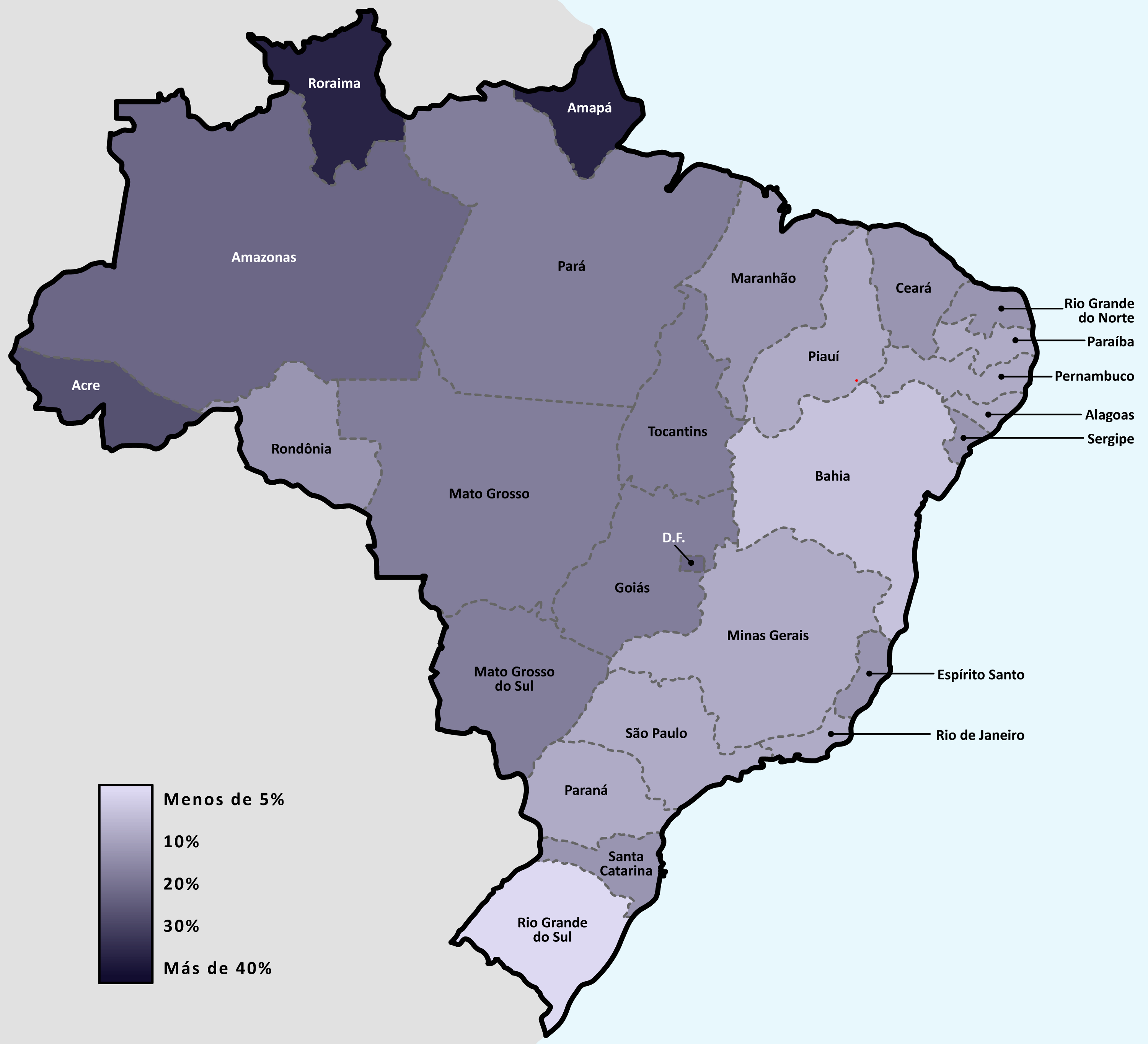 Population growth of Brazil by states 2000-2010. Source: 2000 and 2010 censuses, Brazilian Institute of Geography and Statistics (IGBE)